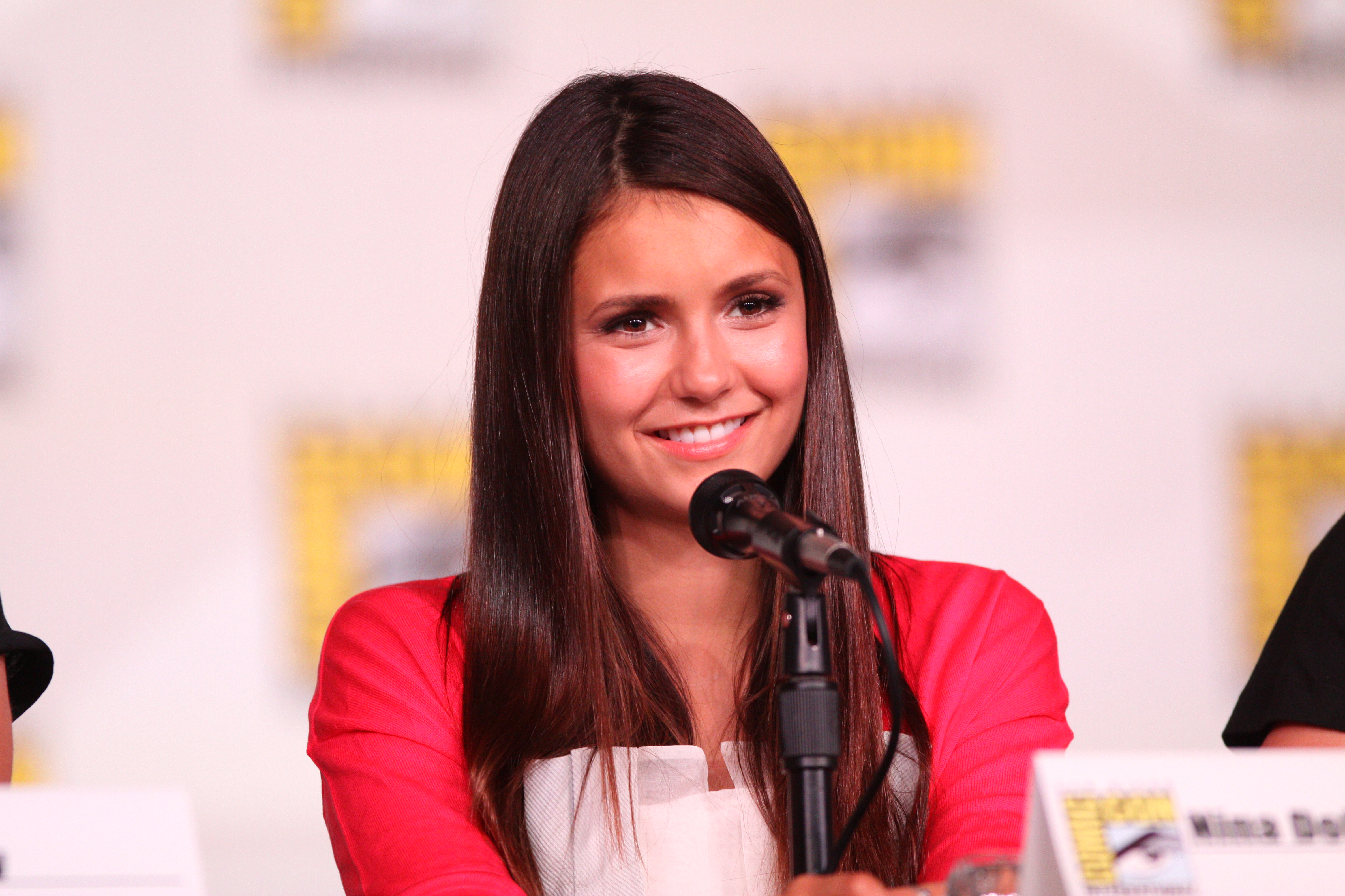 Nina Dobrev speaking at the 2012 San Diego Comic-Con International in San Diego, California.